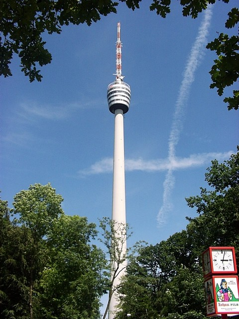 Tv tower Stuttgart. The 217 meter high tower is the highest project of -Degerloch